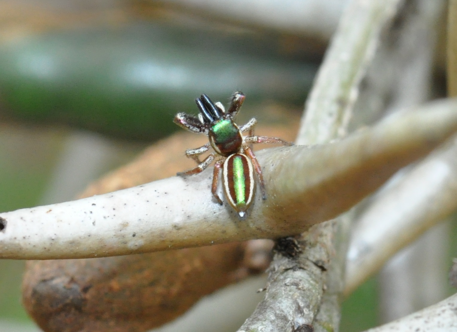 Male Bagheera kiplingi in Yucatan, Mexico